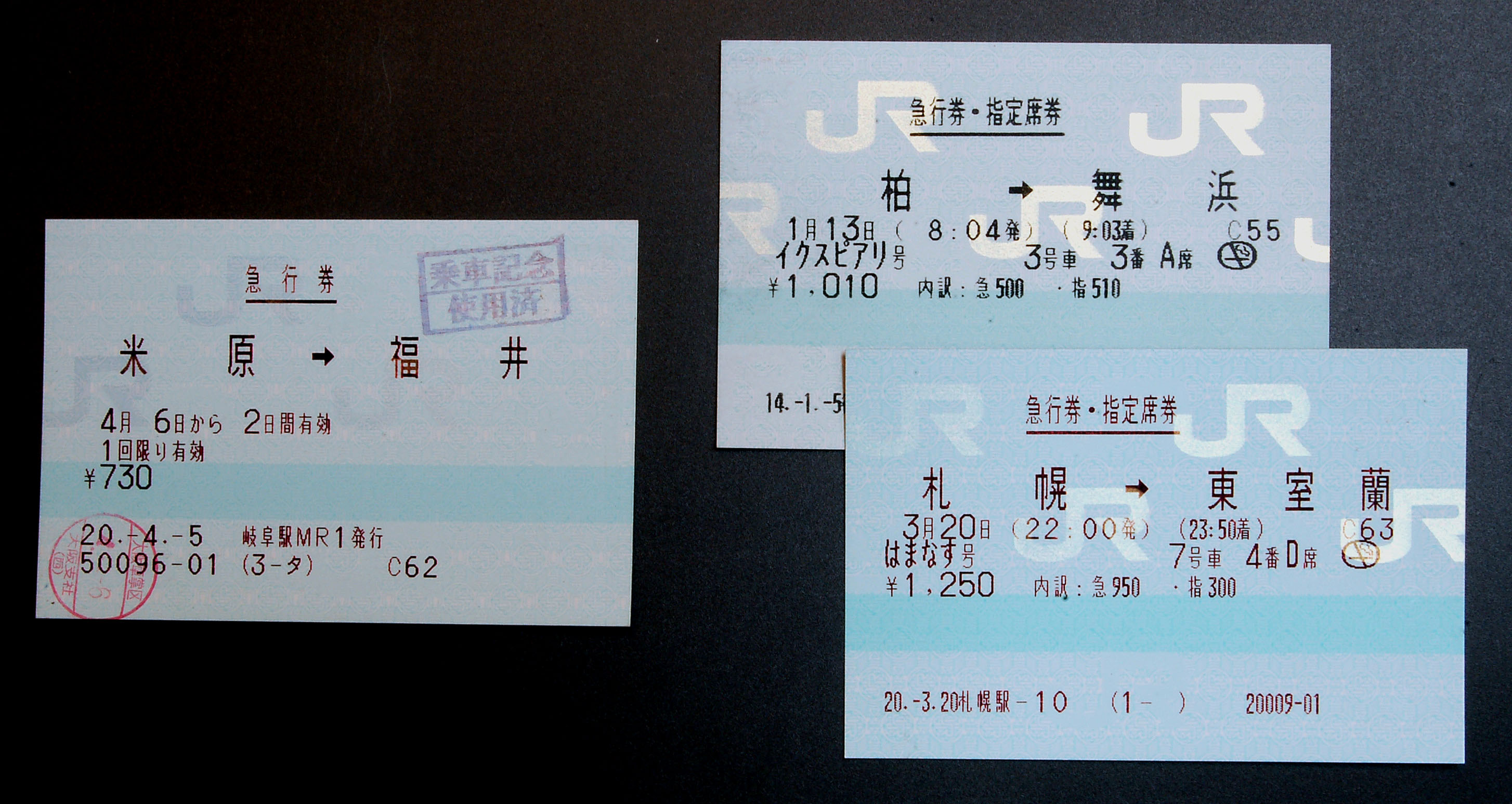 JR express tickets. Left is normal express tickets without seat reservation, and right are express and seat reservation tickets. JRの急行券。左は座席を使用しない単独の急行券、右の2枚は座席指定券と同一券片で発行されたもの。